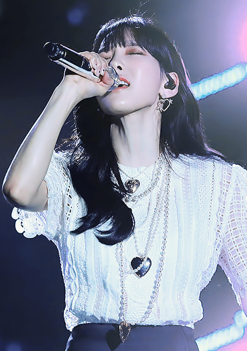 Kim Tae-yeon at Asia Song Festival on September 24, 2017.